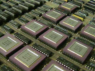 Part of the CPU of a Prime Computer Minicomputer. Yes, the whole circuit board is the CPU, the purple ICs are likely ASICs or Gate arrays.